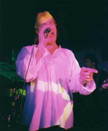 John Lawton live at the Borderline in London